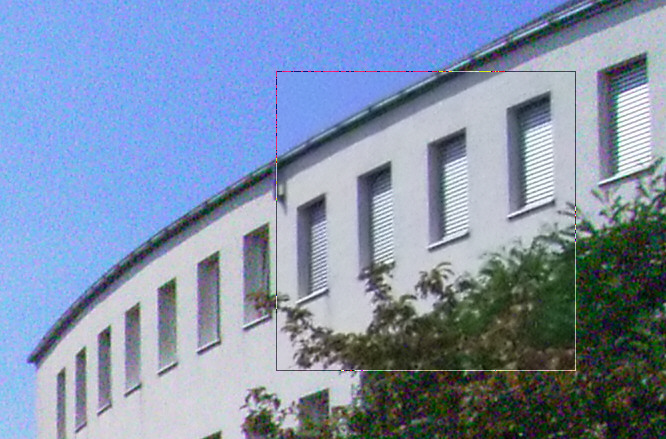 Crop of a digital photography with heavy colour noise. The frame shows the preview of a specialised noise reduction software (Neat Image). Photo taken with Ricoh Caplio GX at ISO800.